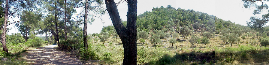 The hill of Agamede (Vounaros) near ancient Pyrrha